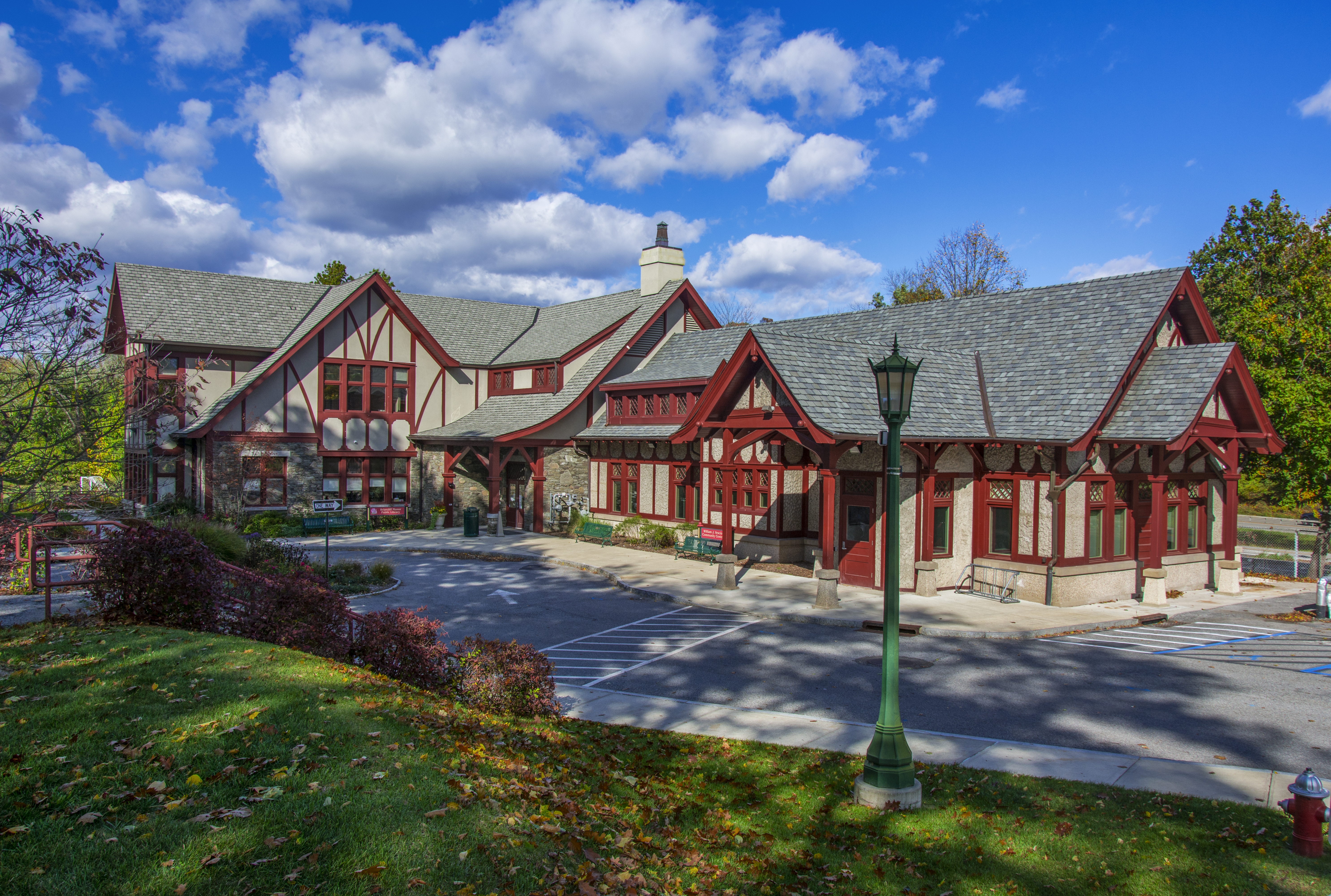 The Briarcliff Manor Public Library, October 23, 2016.